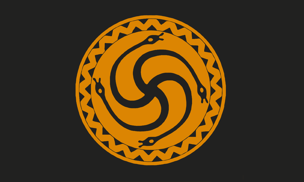 Flag of the Romuva Religion